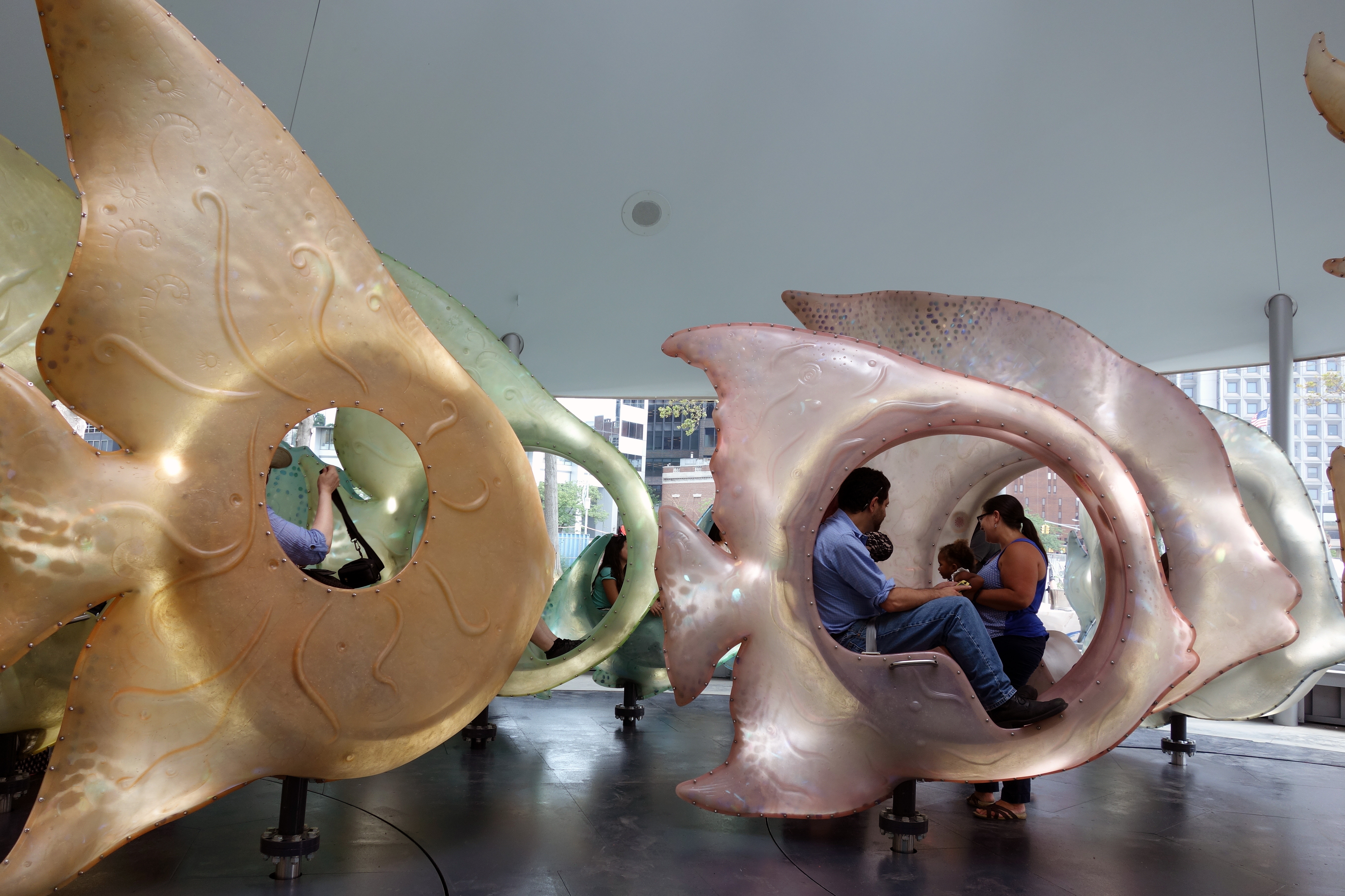 Battery Park, NYC